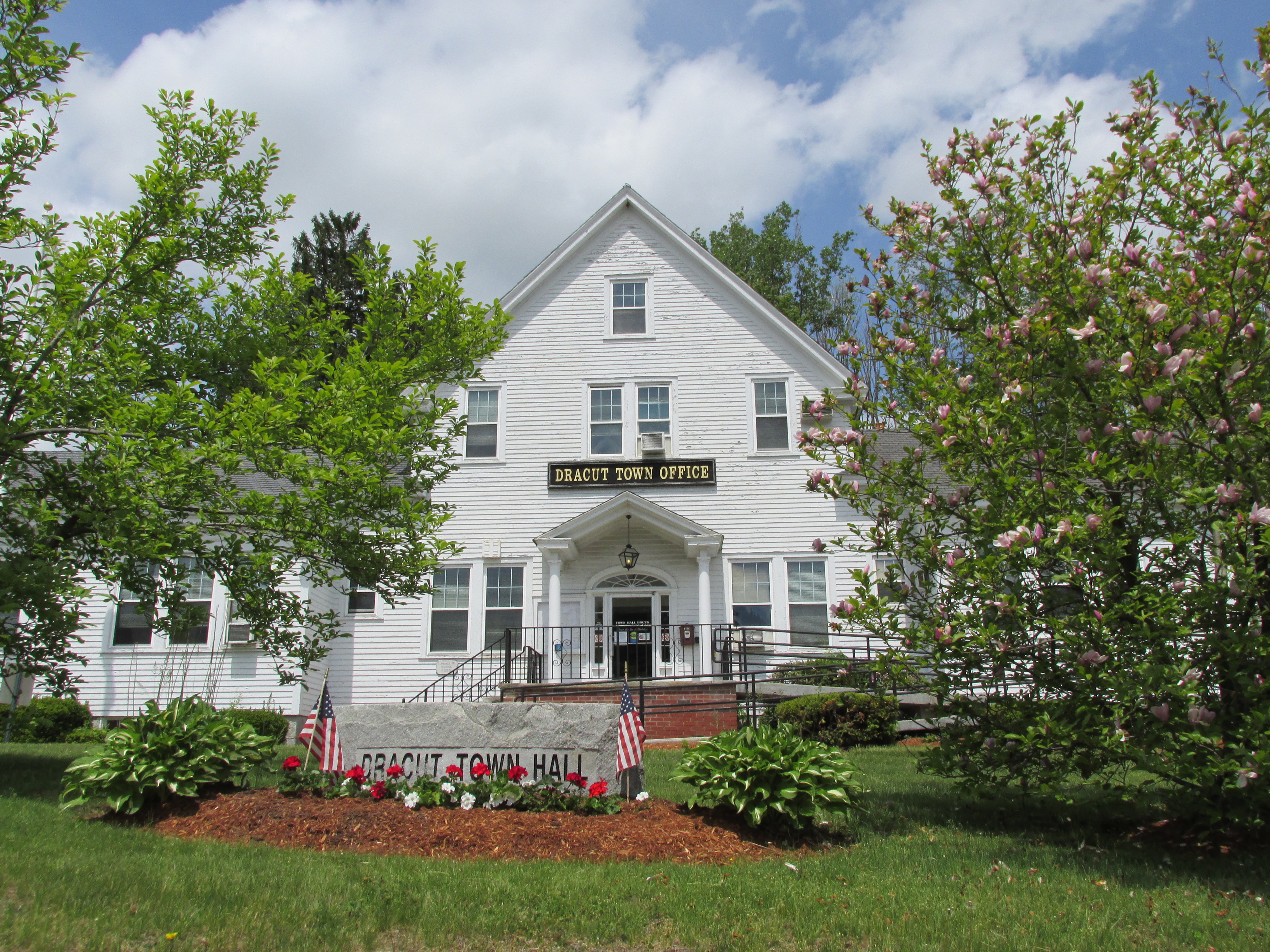 Dracut Town Office, Dracut Massachusetts